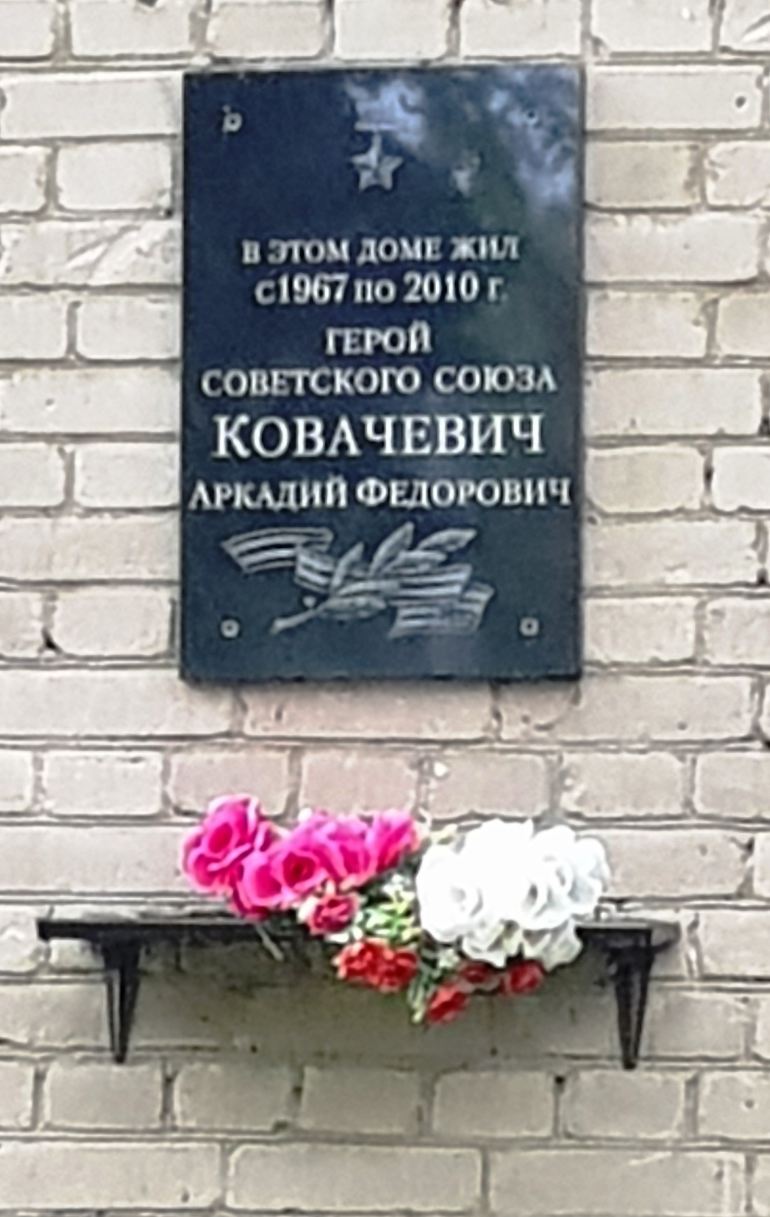 Memorial plaque to Kovachevich at the house number 3 on General Belyakov street in Monino